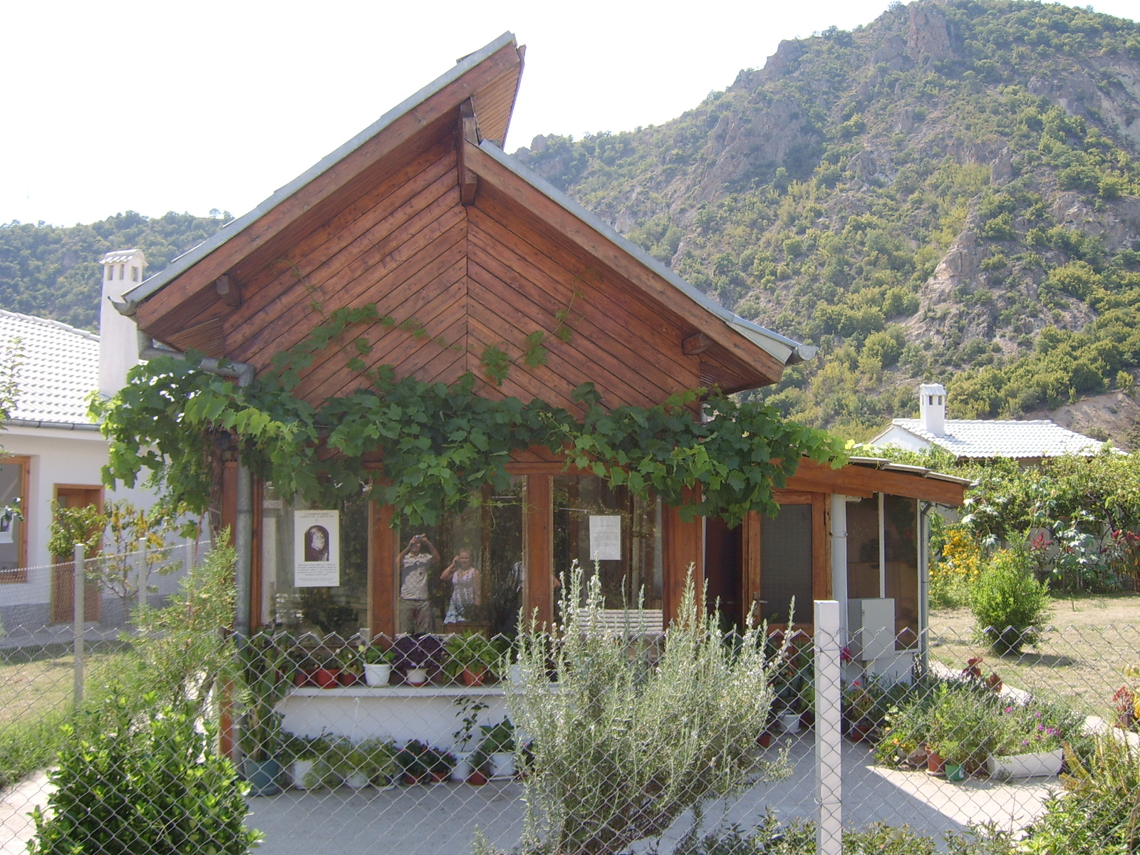 Vanga's house in Rupite, Bulgaria.